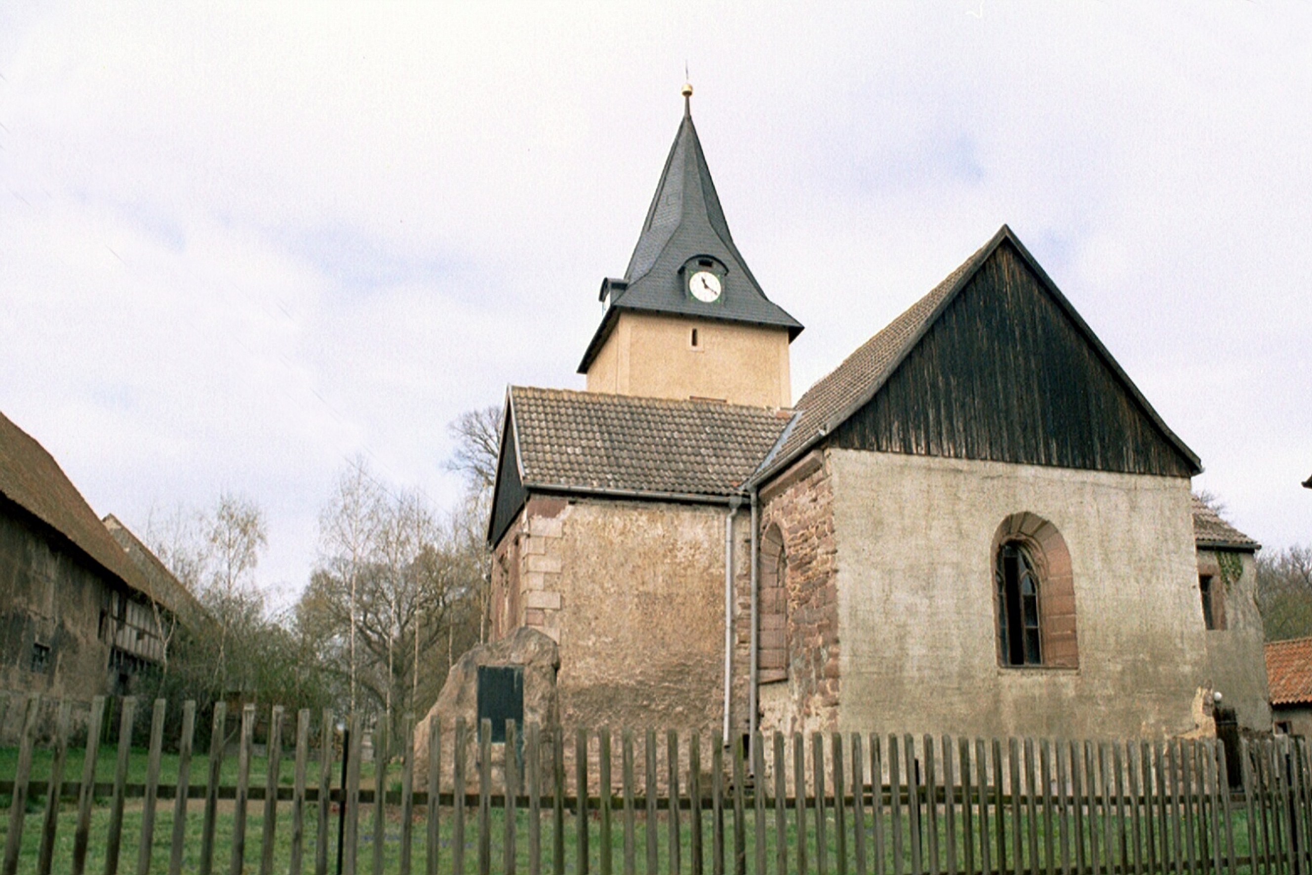 Brücken-Hackpfüffel, the village church in Hackpfüffel